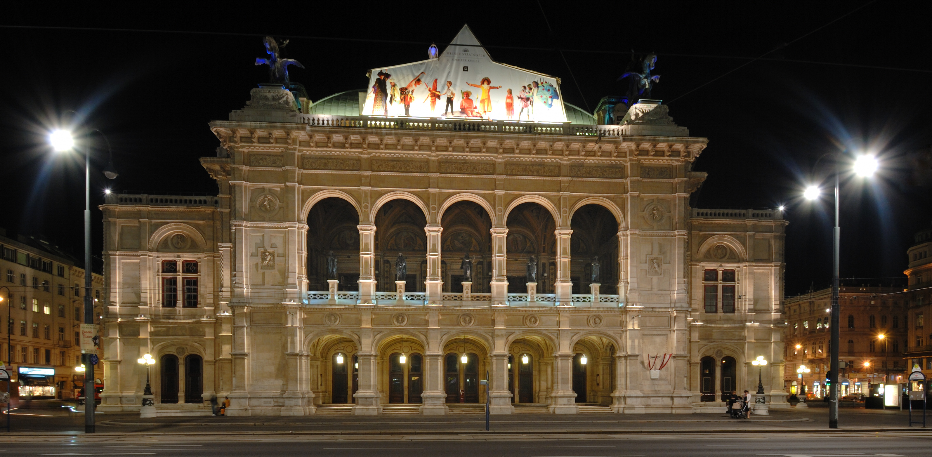 Vienna State Opera